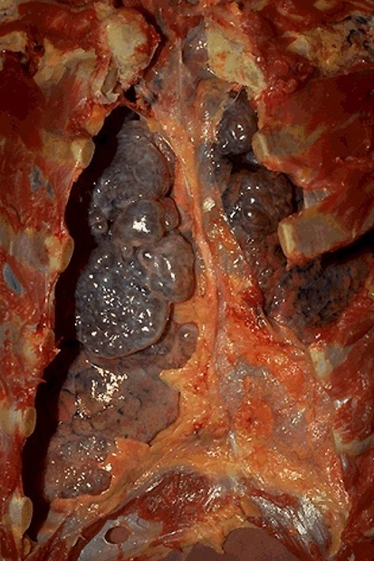 imagen macroscopica de enfisema bulloso